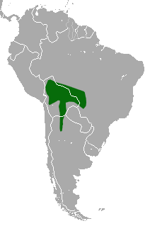 Bay-colored Mouse Opossum (Micoureus constantiae) range